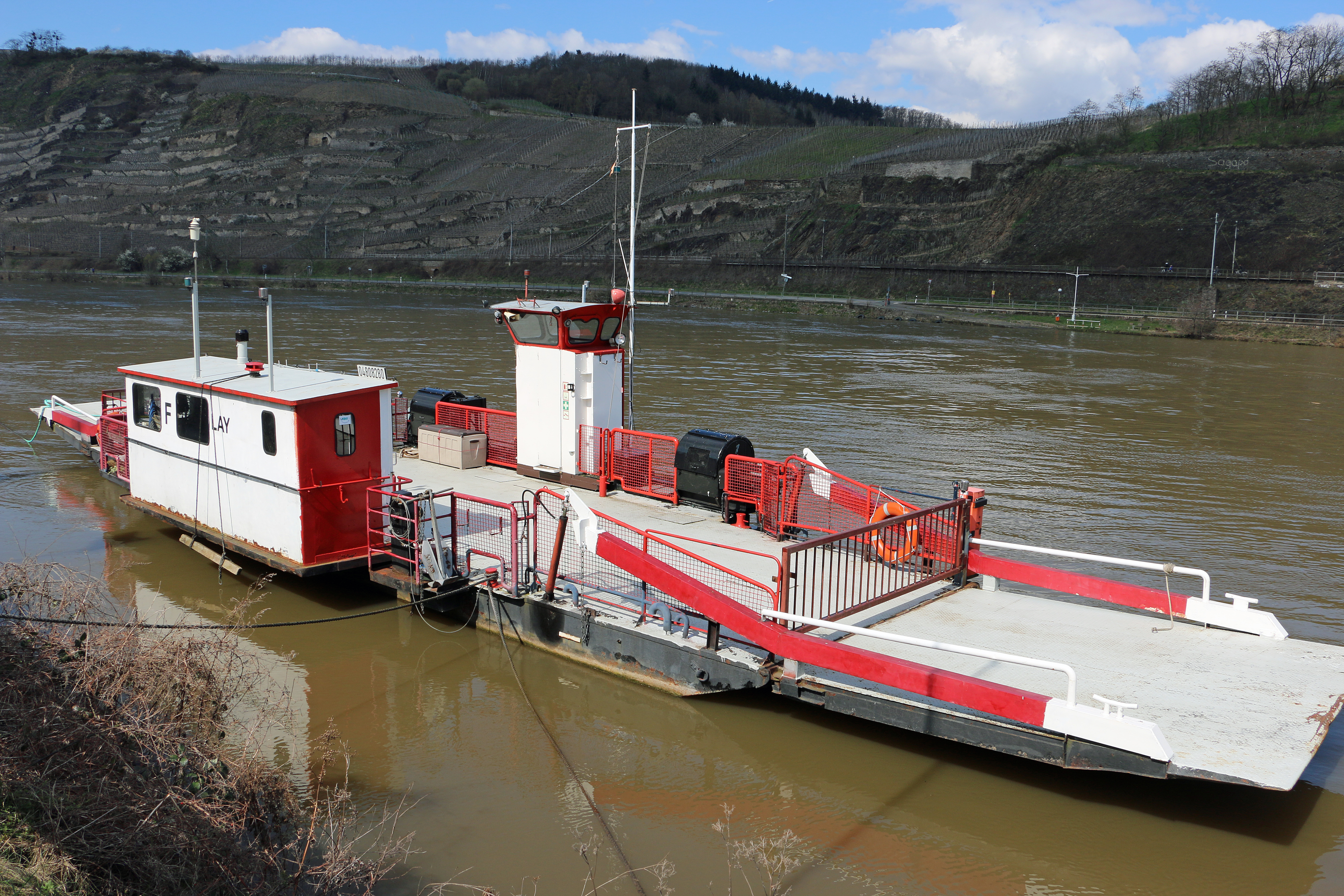 Moselle ferry “Lay” in Koblenz